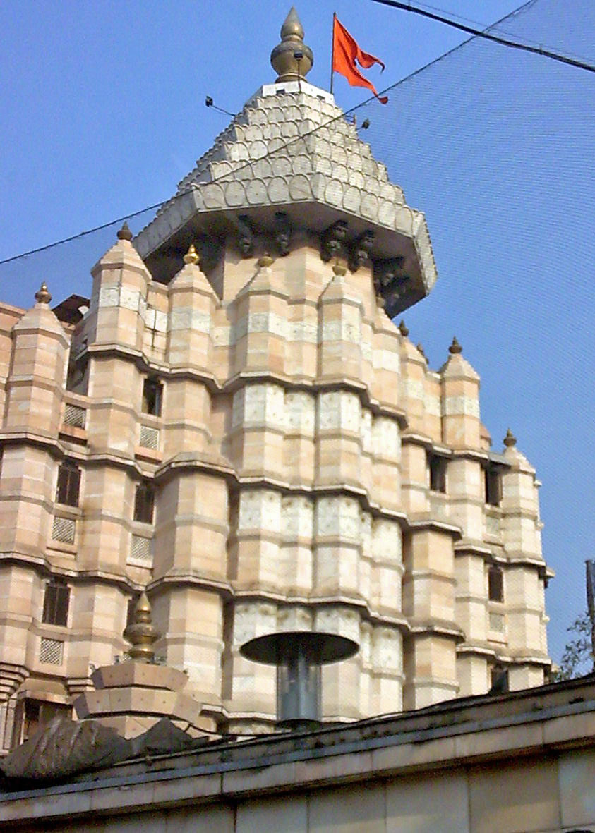 Siddhivinayak temple, temple